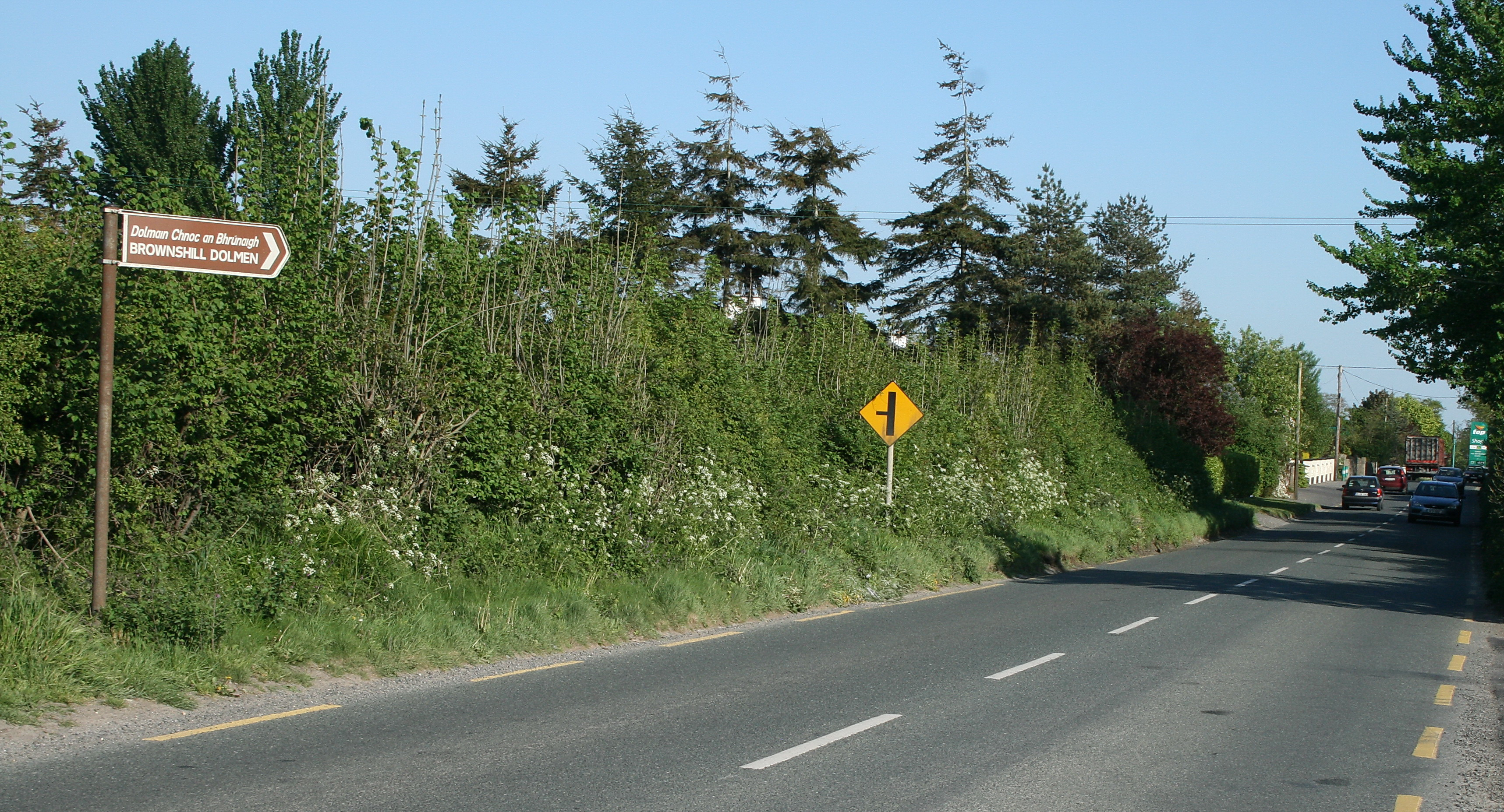 The R726 at the lay-by beside Browneshill Dolmen